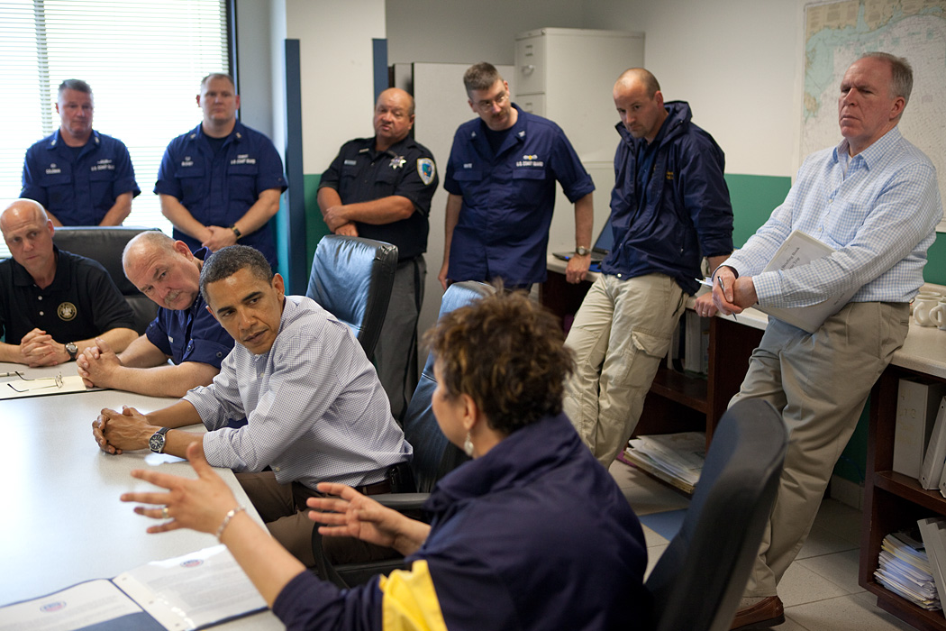 May 2, 2010 - President Barack Obama listens to EPA Administrator P. Lisa Jackson during a briefing about the state of the Gulf Coast after the BP oil spill, at the Coast Guard Venice Center, in Venice, La.. U.S. Coast Guard Commandant Admiral Thad Allen is seated next to the President and Assistant to the President for Homeland Security and Counterterrorism John Brennan stands at right. (Official White House Photo by Pete Souza) More about EPA's response at